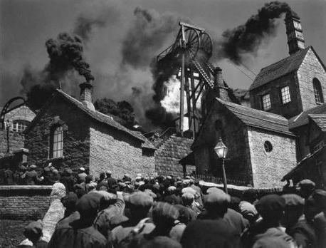 Promotional still from the 1941 film How Green Was My Valley, published in National Board of Review Magazine